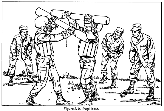 Figure A-9 "Pugil Bout" from US Army FM 21-150 Combatives (1992).